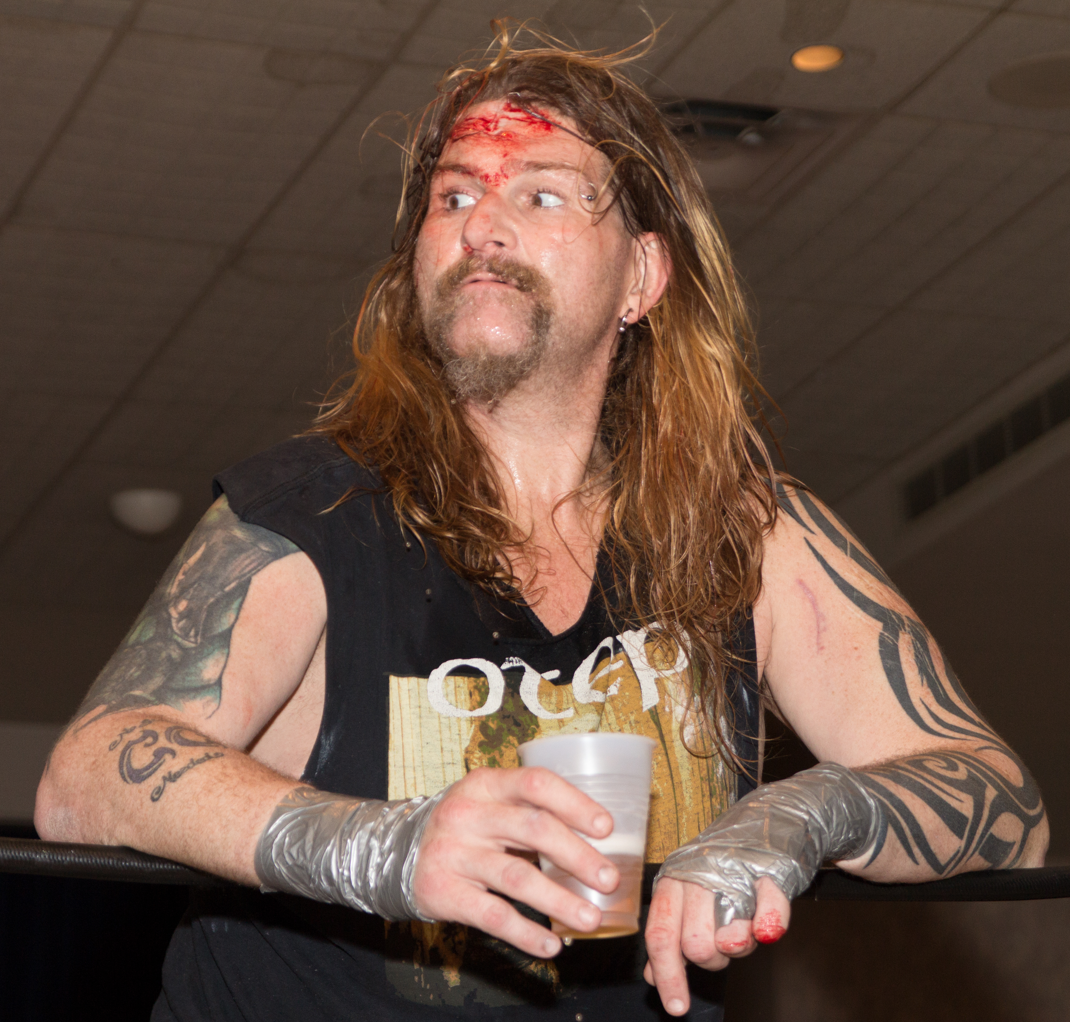 Jonathon Rechner, better known as Balls Mahoney, posing in the ring post-match at the Hardcore Roadtrip show in London, ON